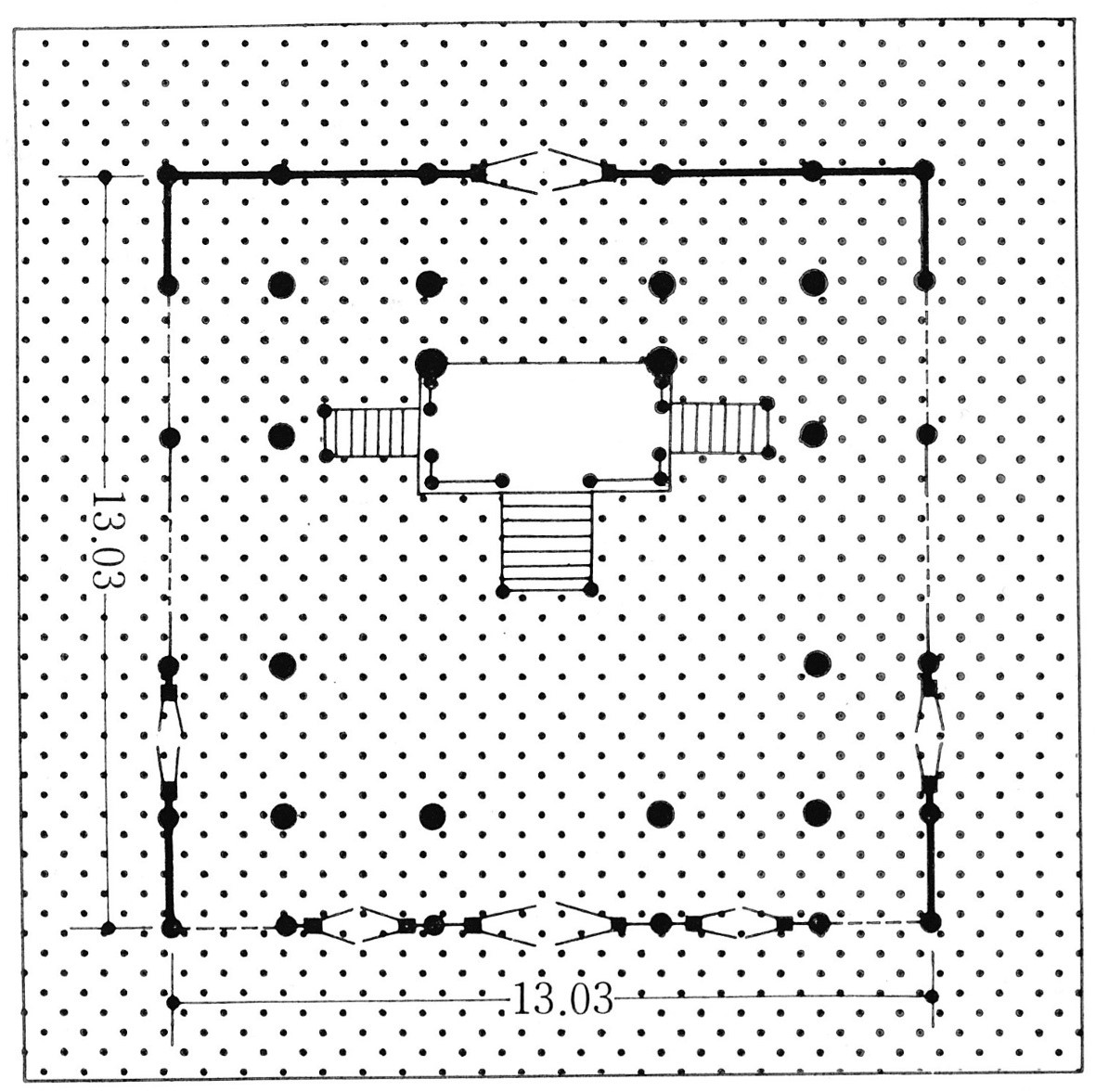 Zuiryu-ji (Takaoka) Butsuden